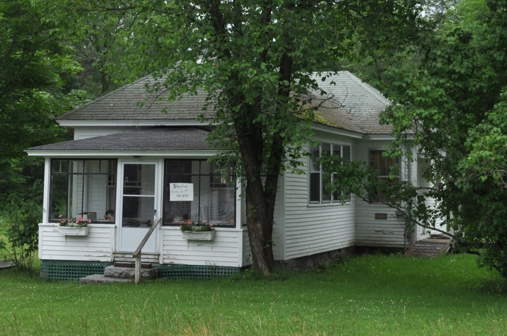 The public library in Franklin, Maine